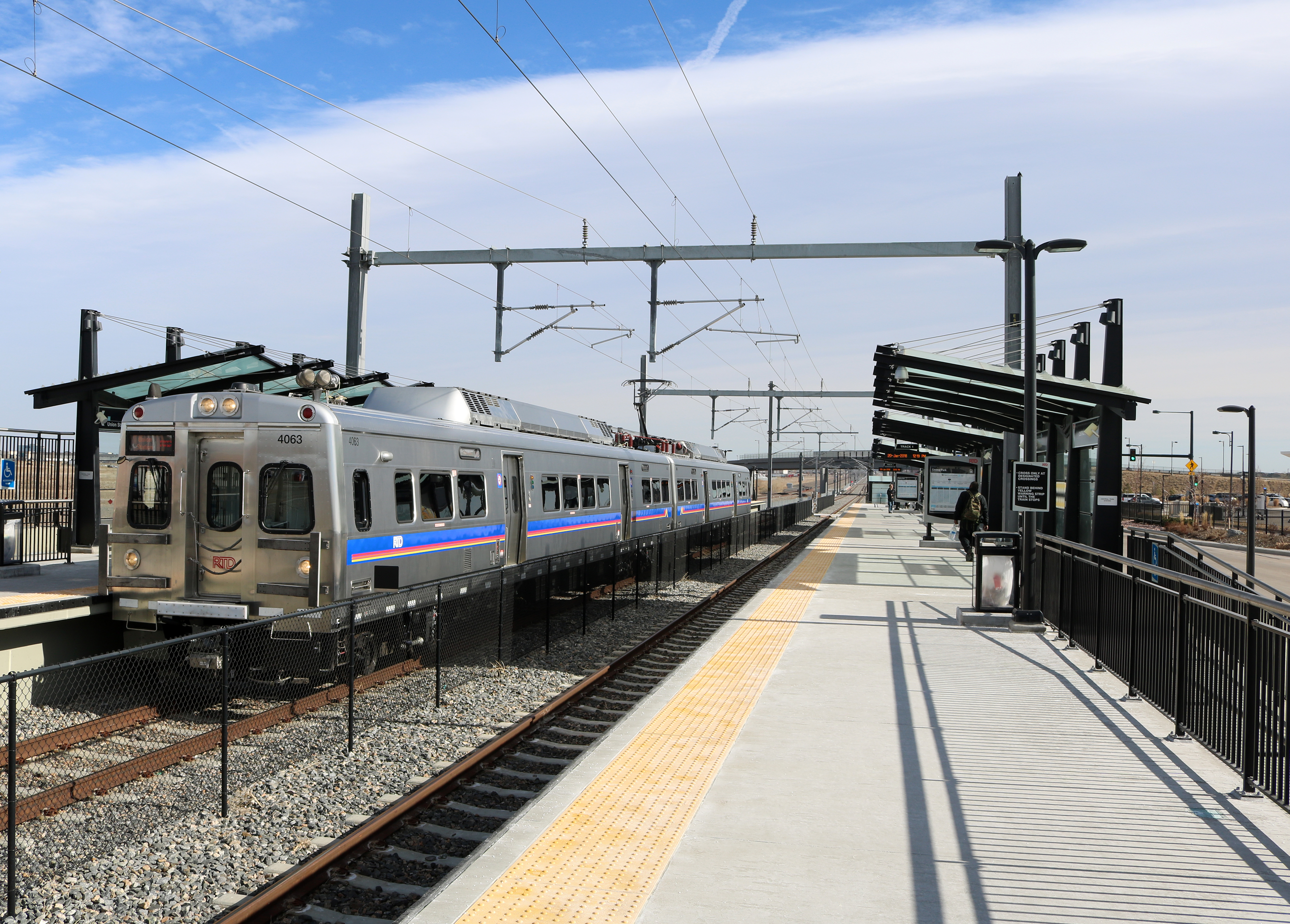 The platforms at the RTD Central Park Station in Denver, Colorado's Stapleton Neighborhood. The station is on the A Line that goes between the Denver Airport and Union Station in Denver. The station's street address is 8175 East Smith Road, Denver, Colorado.